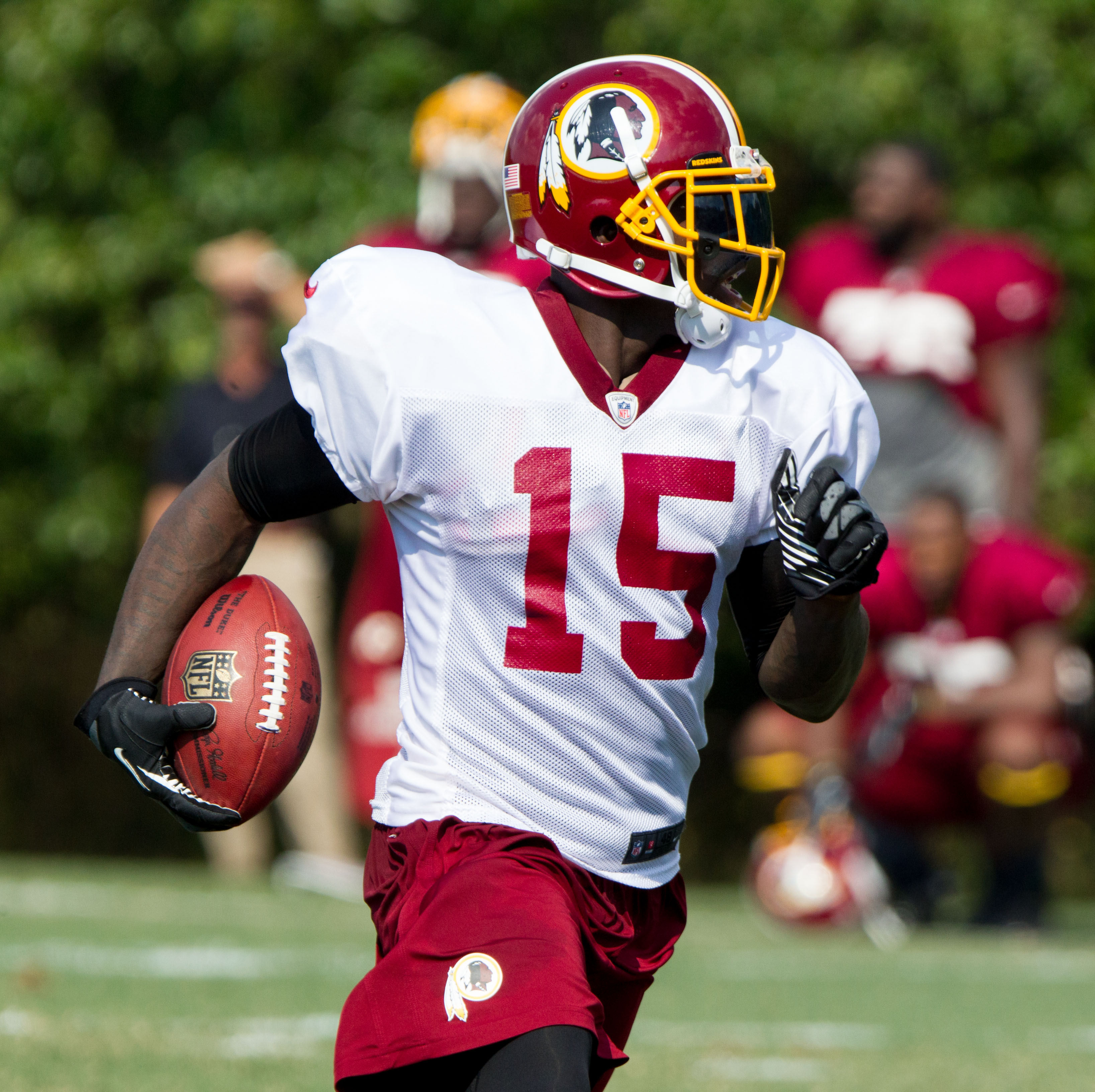 Josh Morgan at Washington Redskins Training Camp August 13, 2012